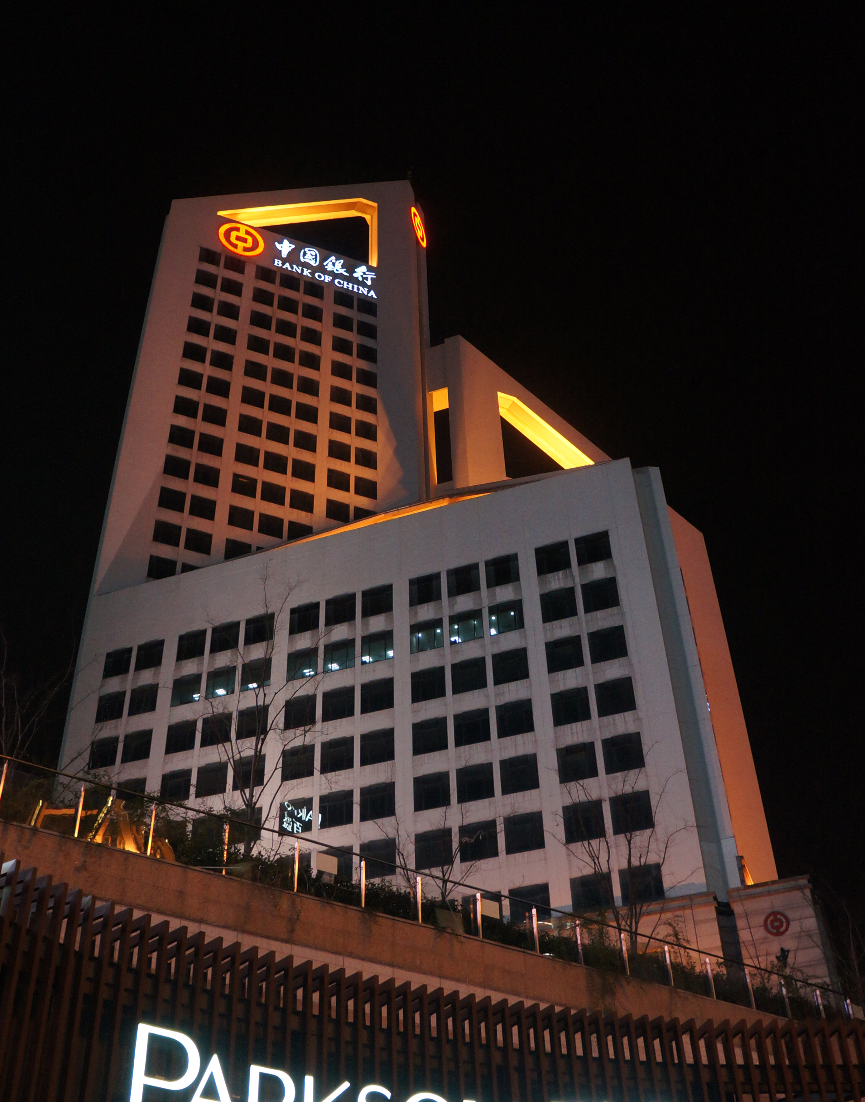 201701 Bank of China Tower Wuxi